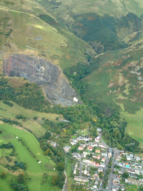 Tillicoultry Quarry and Mill Glen from the air. Taken from 1200 feet using a telephoto lens